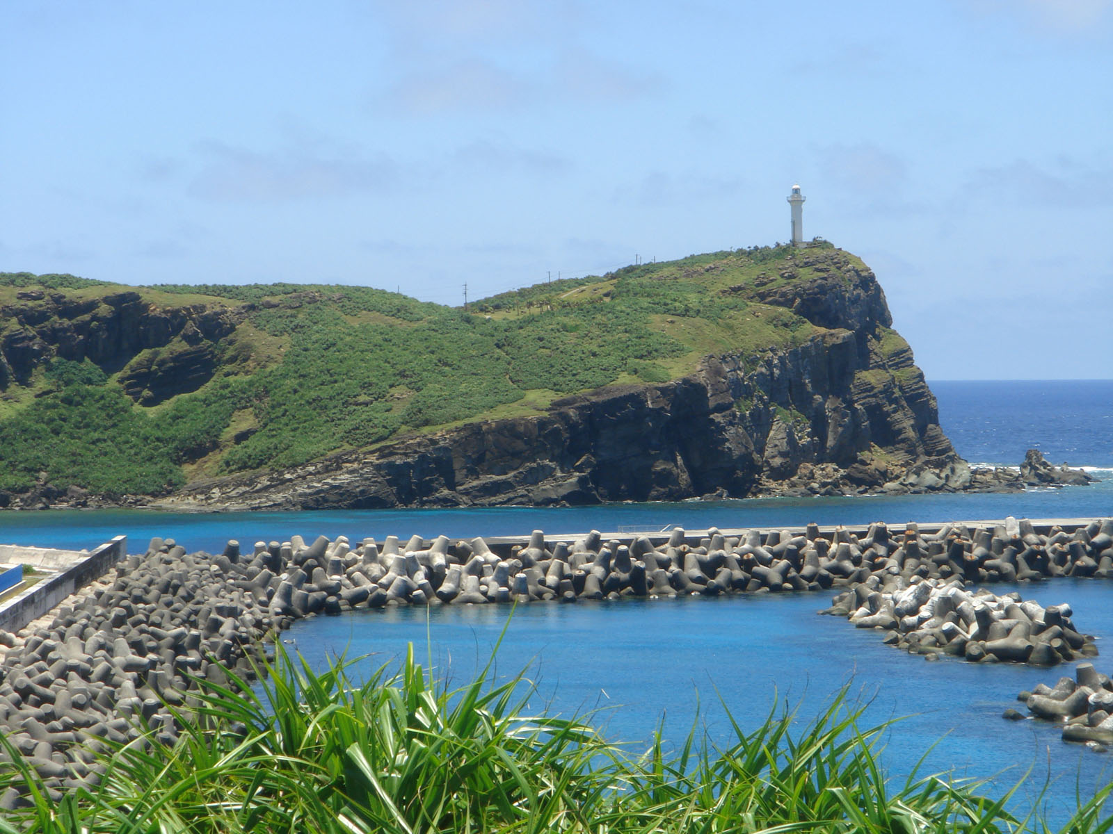 Irizaki, Yonaguni island, westernmost point of Japan / 日本最西端の地、西崎（与那国島）